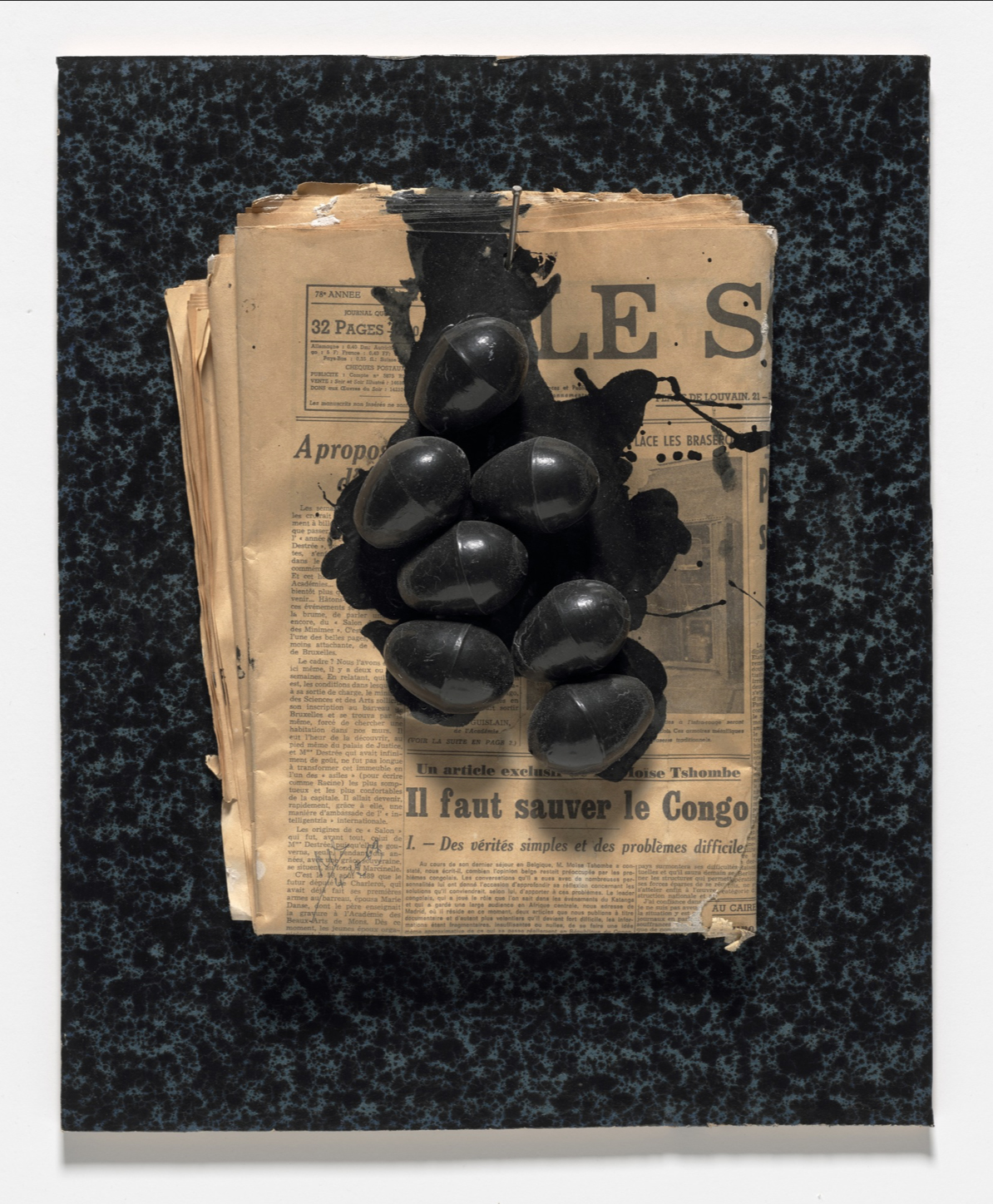 an early art assemblage by Marcel Broodthaers made with patterned board, newspaper, plastic eggs and black paint